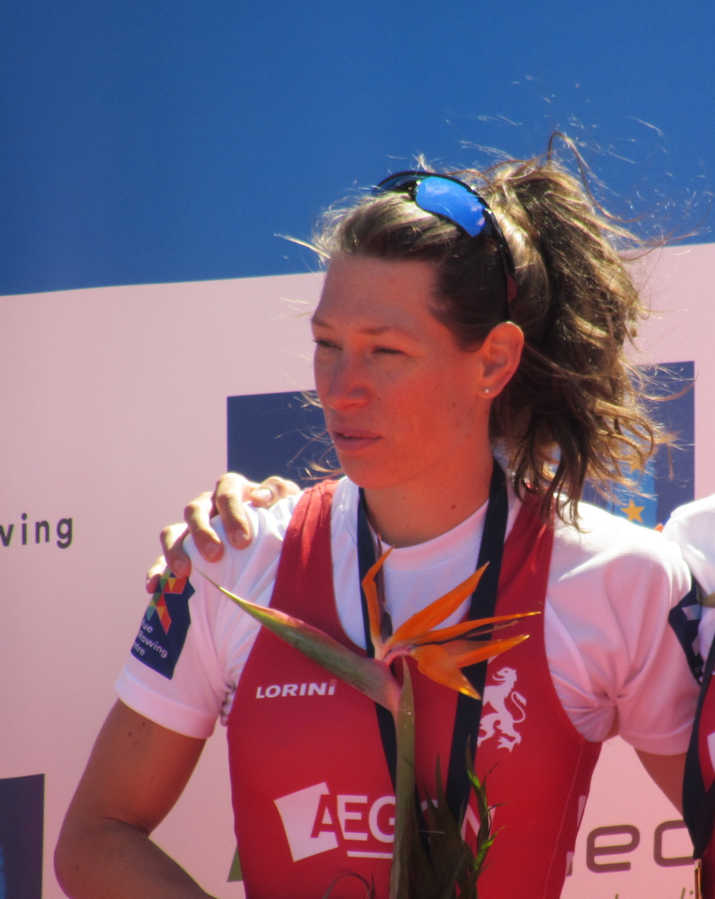 Ilse Paulis (right) and Maaike Head (left) at the 2016 European Rowing Championships in Brandenburg an der Havel, Germany